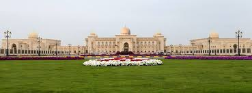 The vision of Al Qasimia University (AQU) is to become a renowned institution of higher education and research, guided in all that it undertakes by the foundations, principles and teachings of Islam as a tolerant religion open to the entire world. It further seeks to promote dialogue among religions and cultures as well as the advancement of science, literature and the arts in all societies.